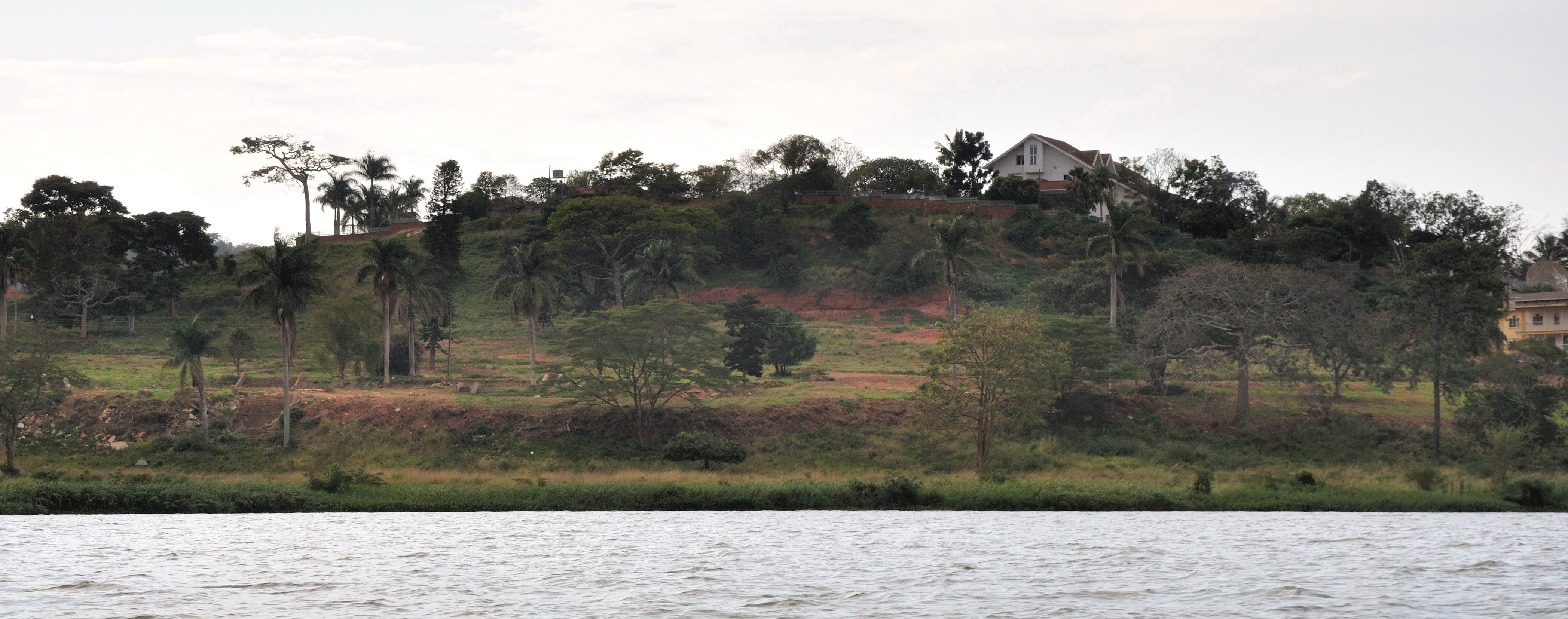 Uganda, Residence of former ruler Idi Amin